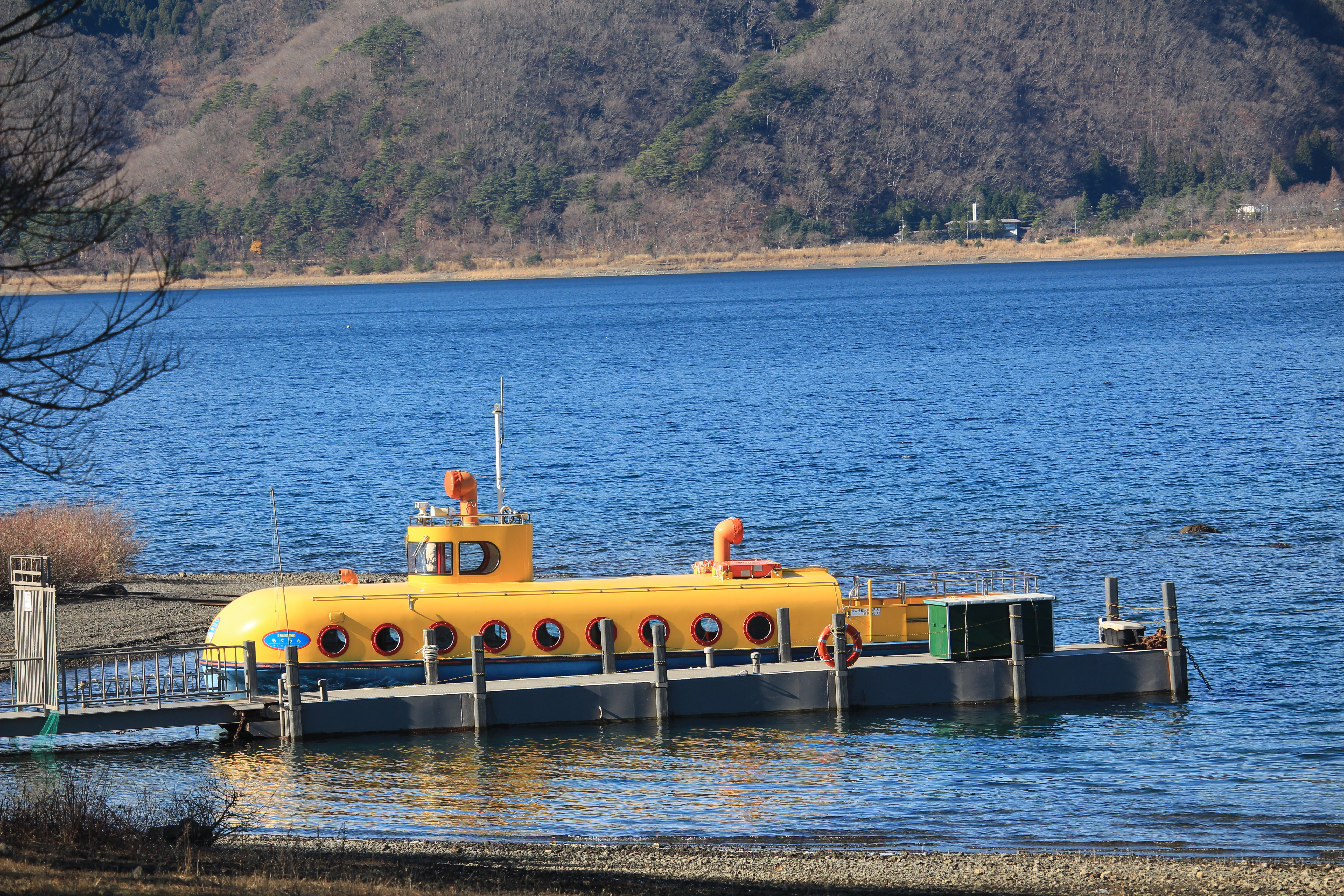 Mogrun in Lake Motosu, Fujikawaguchiko, Yamanashi Prefecture, Japan.